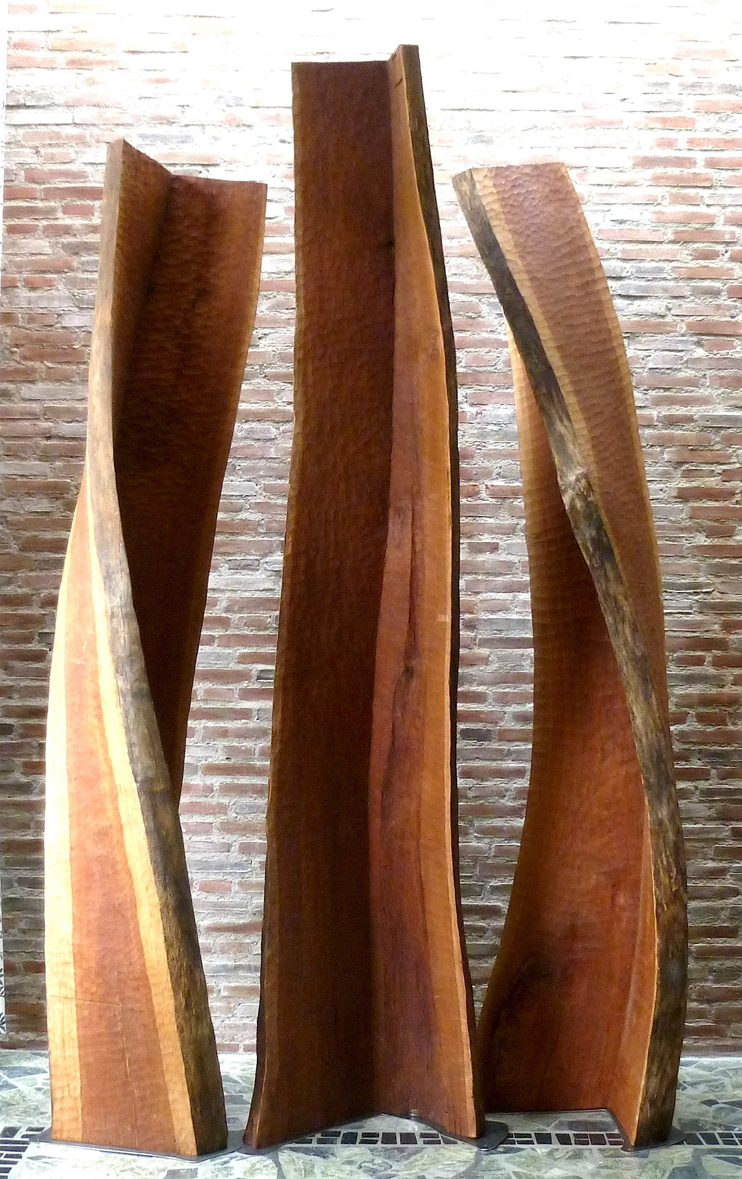 Emilie Brzezinski, Cherry Pantomime, Wood, Courtesy of an anonymous lender